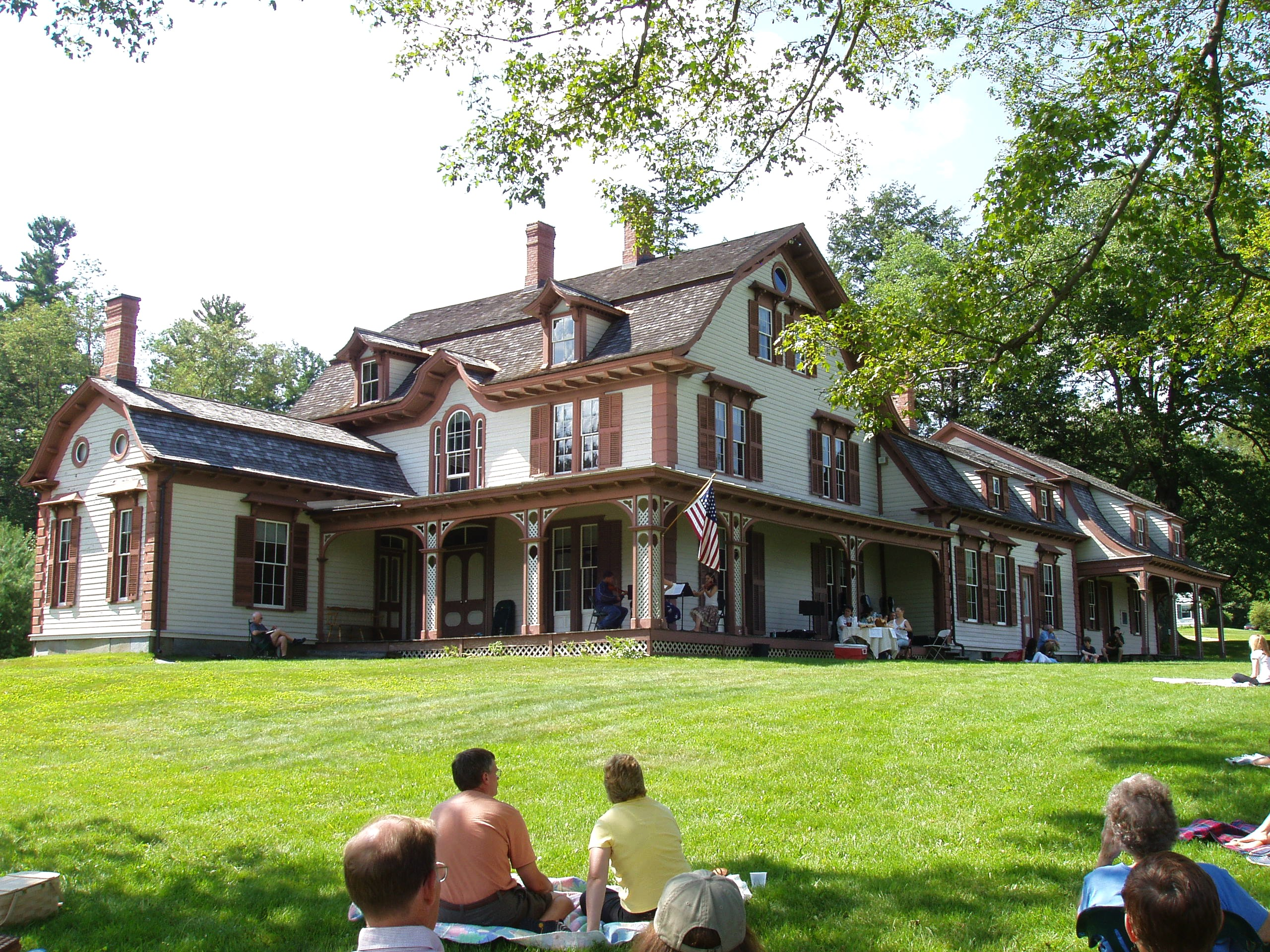 William Cullen Bryant Homestead, Cummington, Massachusetts, USA. A string quartet is playing on the porch.